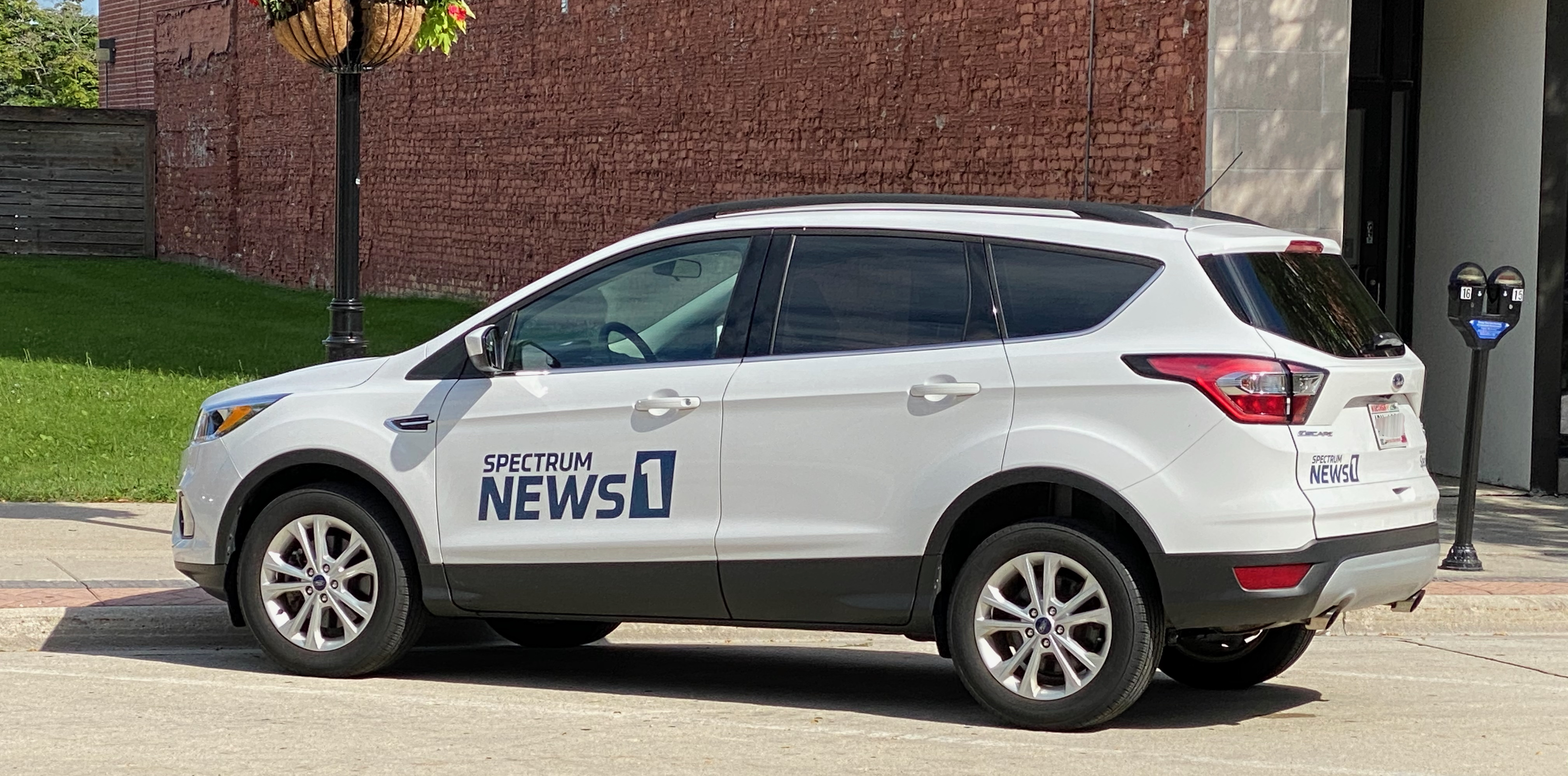 A news car for Spectrum News 1's Milwaukee operations is parked outside the Above & Beyond Children's Museum in Sheboygan, Wisconsin